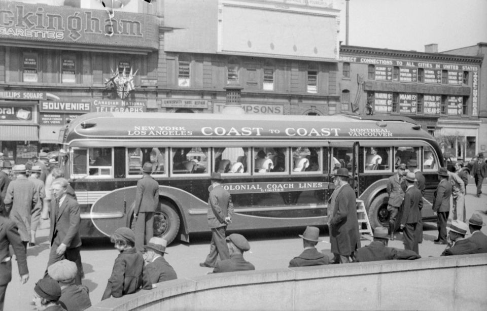 We see the new buses "Colonial Coach Lines" on the square of the Phillips Street in Montreal, with pedestrians, people sitting on public bench and advertising signs on the facades of buildings. We see in the windows of the second floor of the building, the announcement of the dentist Noël Décarie. On the first floor, we find the Canadian National Telegraphs, University Shoe Repair and point of sale for the Travel Motor Coach with the announcements of destinations and prices.